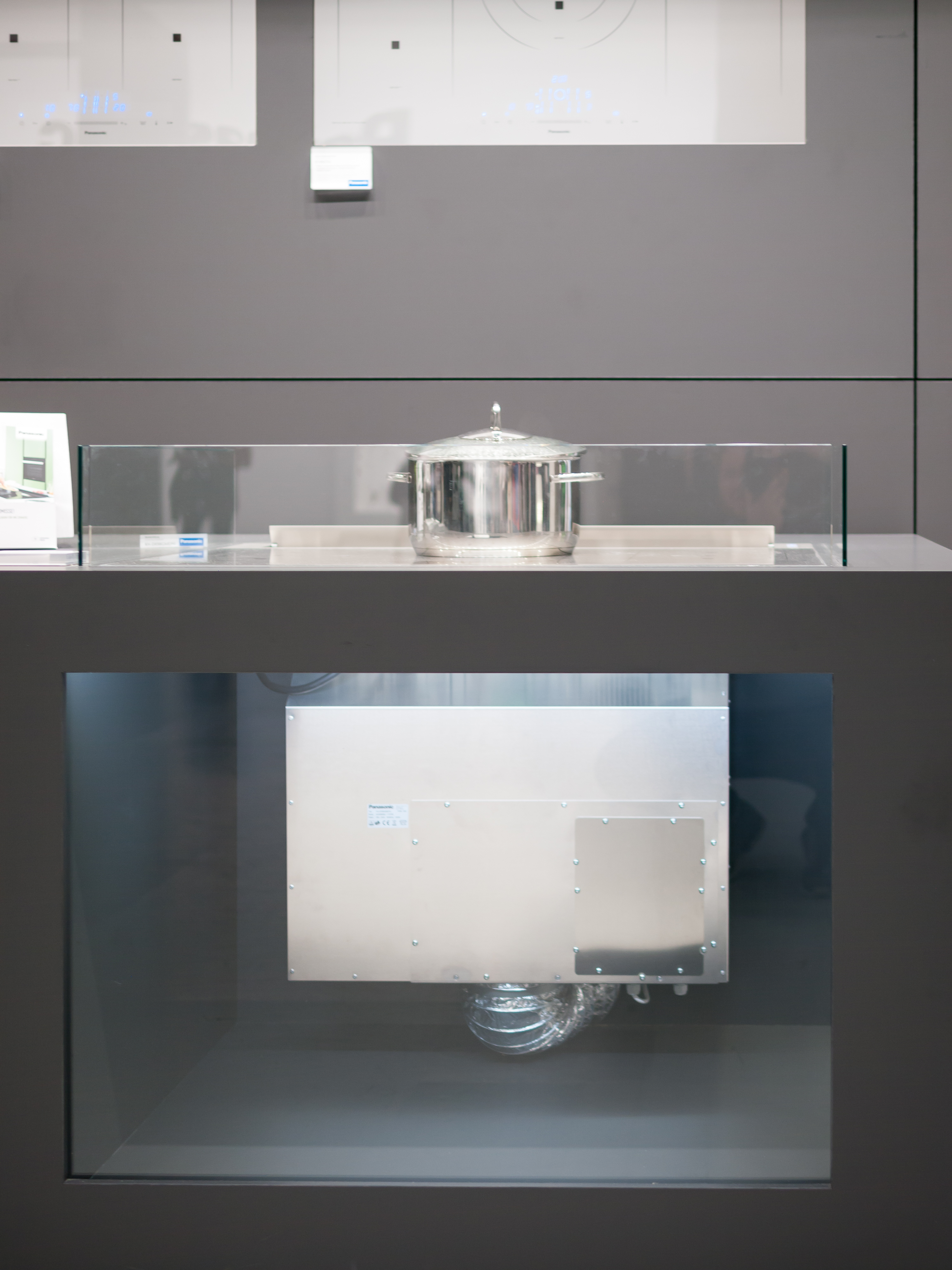 Panasonic, Internationale Funkausstellung 2018, Berlin